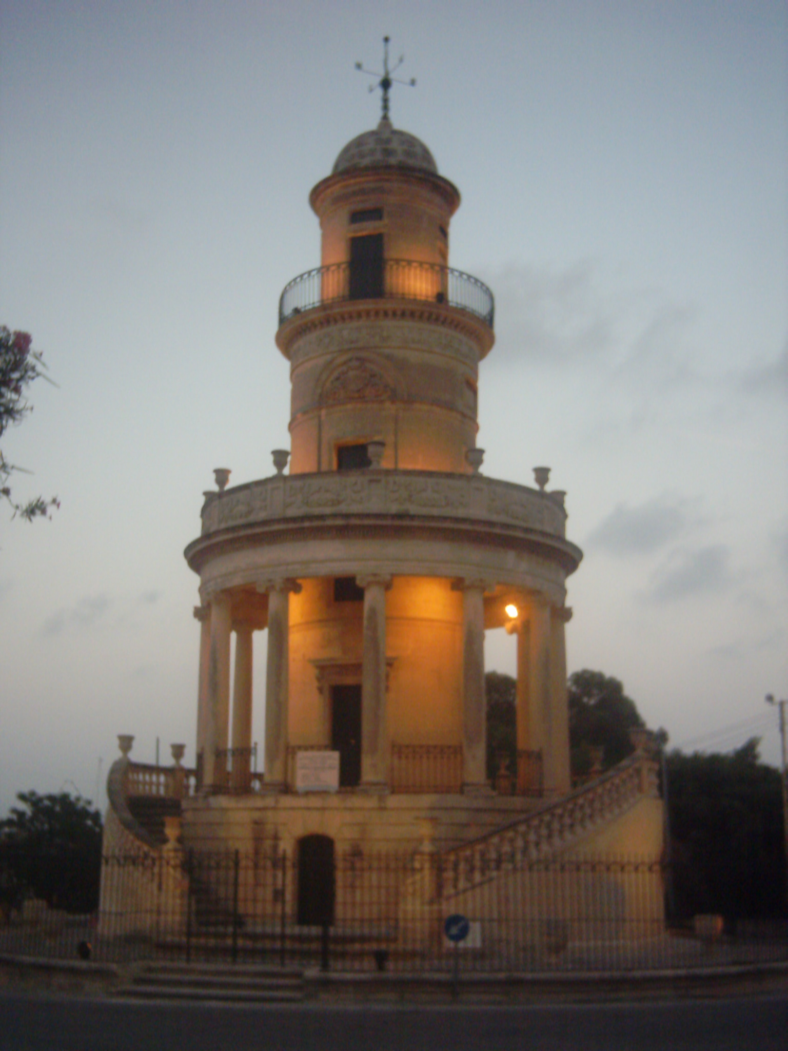 I took this photo during my summer vacation in Malta in July 2004.